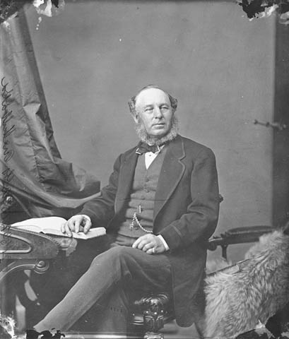 From [1], in the public domain